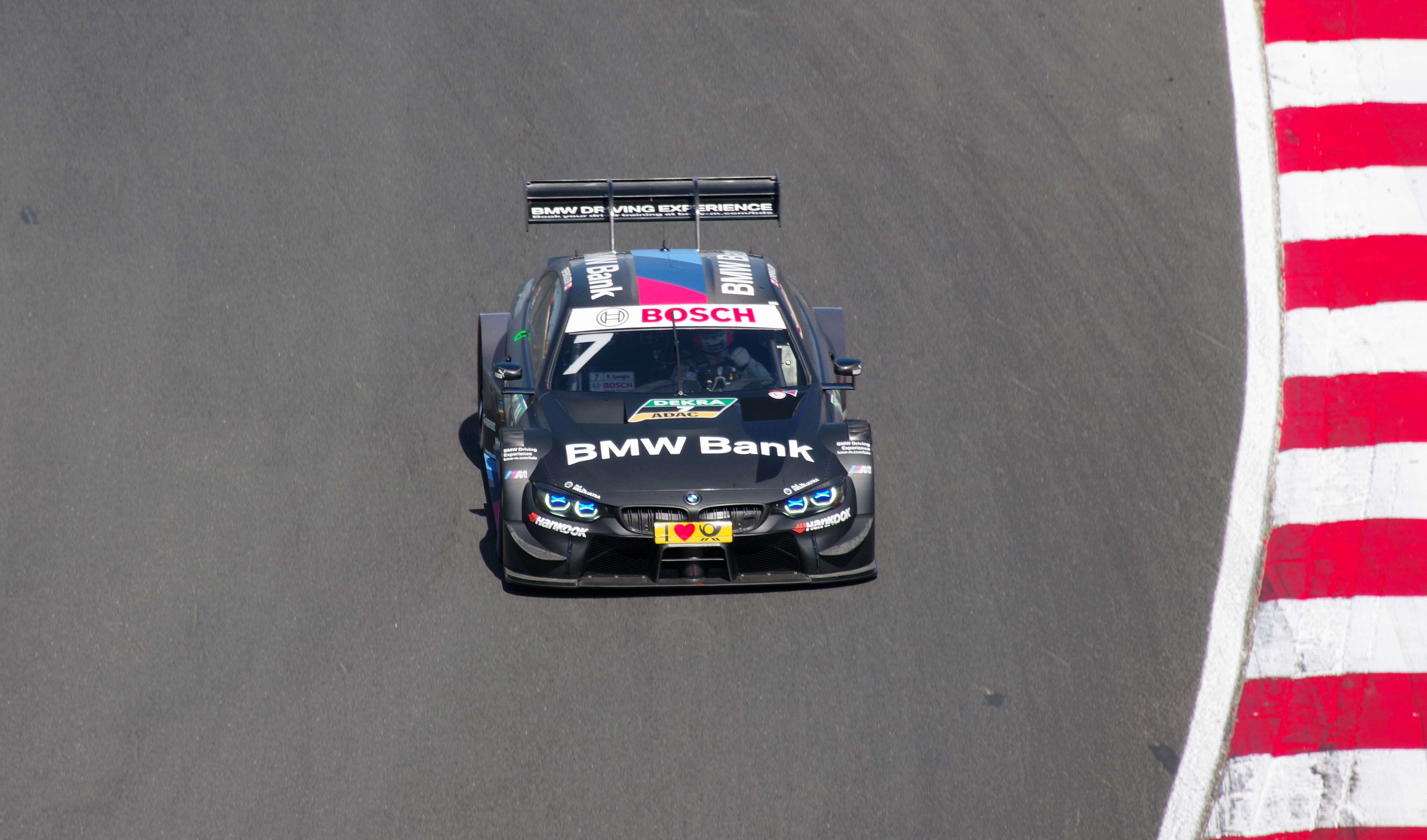 2018 Deutsche Tourenwagen Masters, Brands Hatch.